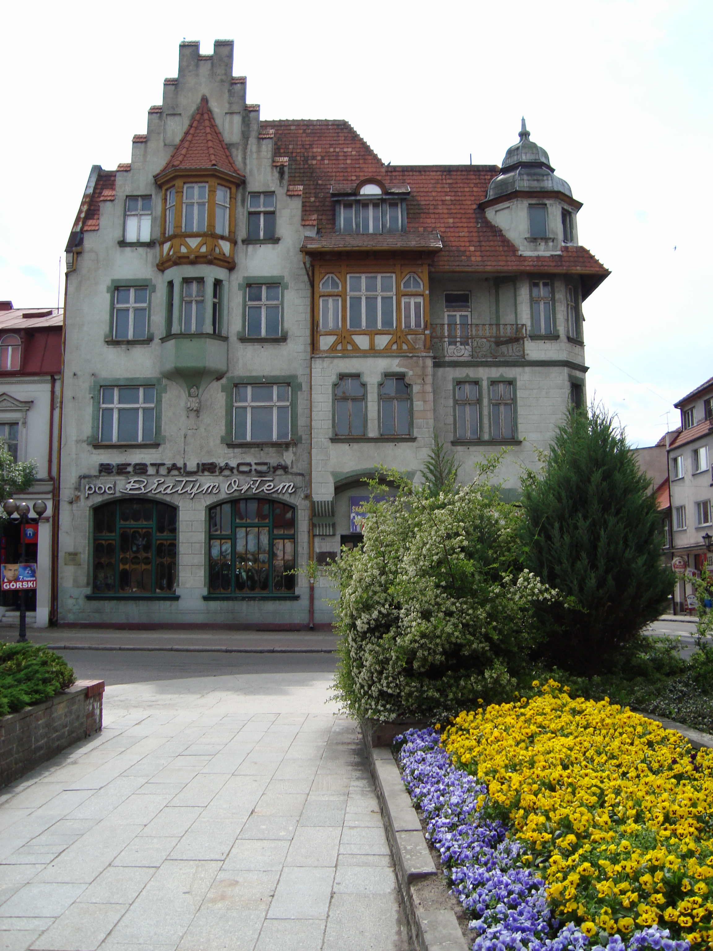 Market place in Międzychód